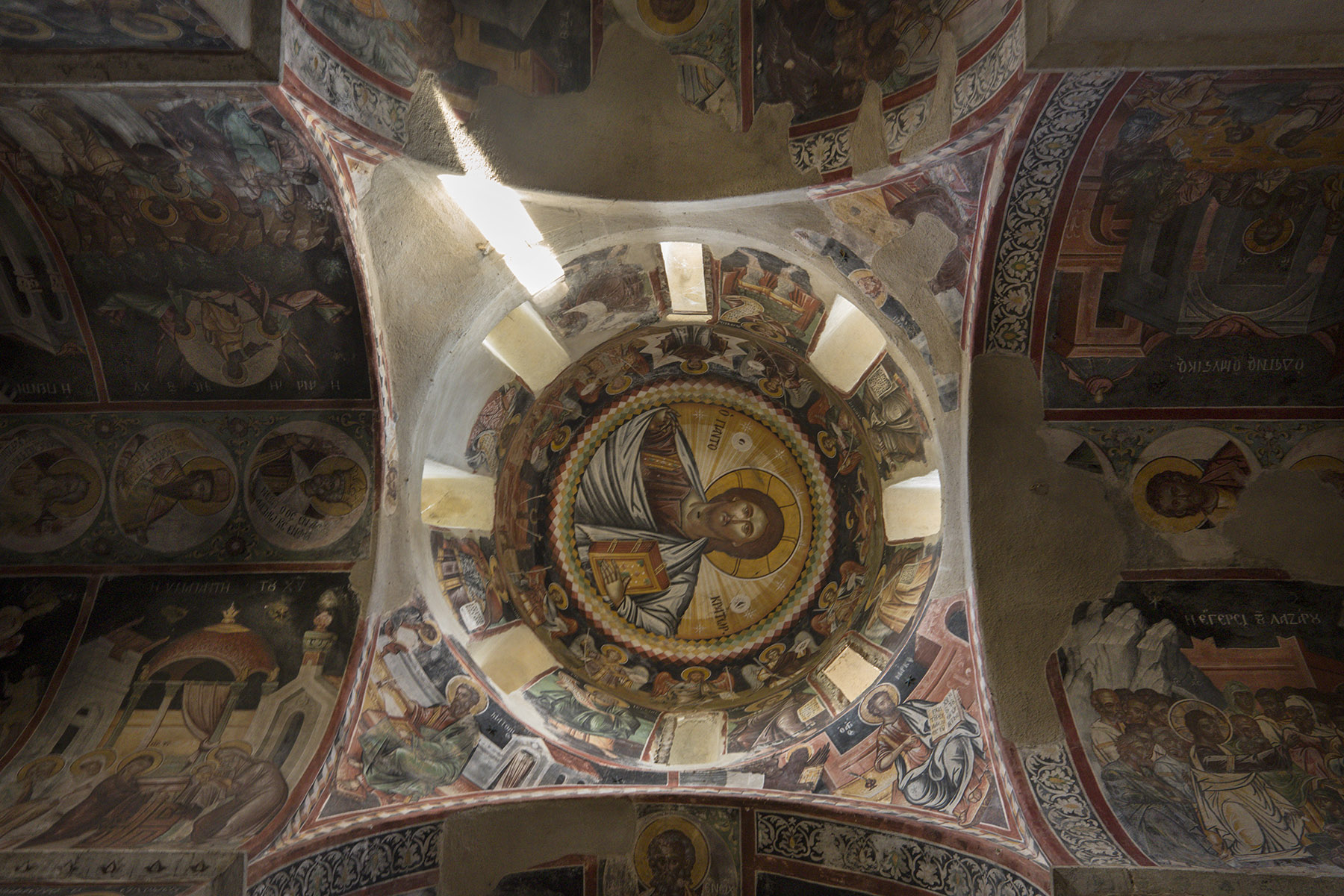 Kaisariani Monastery Athens, polychrome fresco on ceiling, December 13, 2019